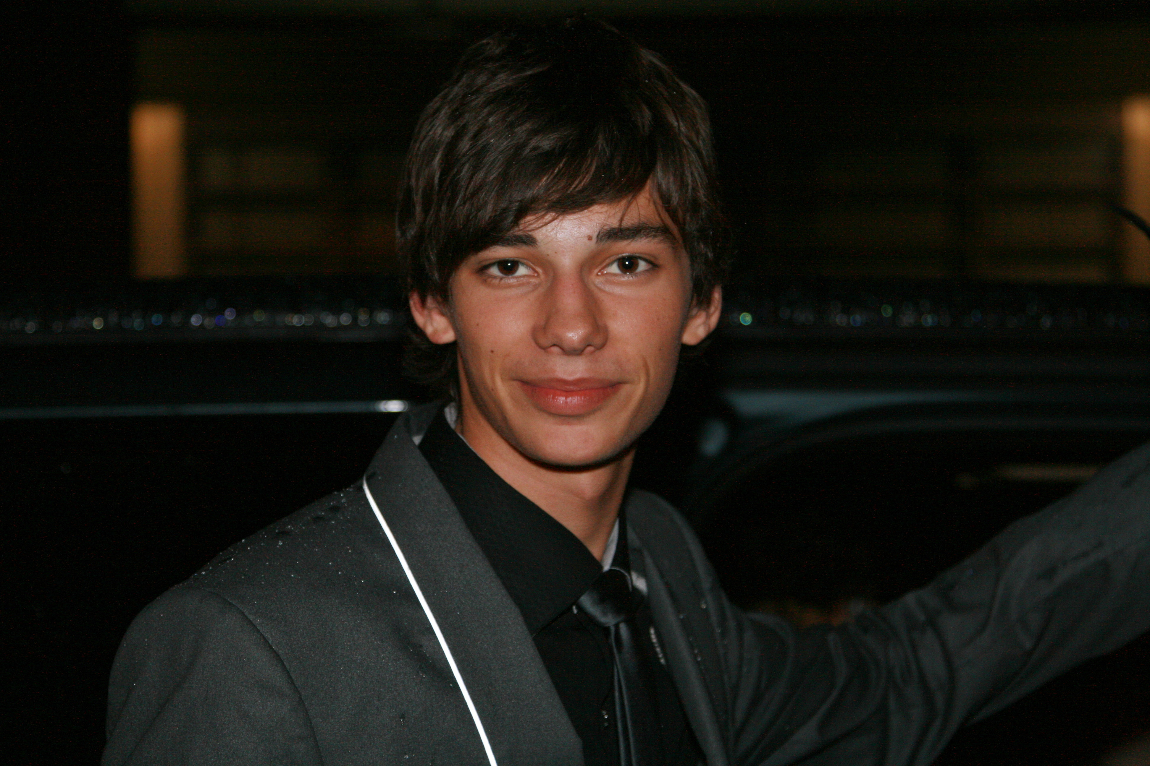 Devon Bostick leaving the TIFF premiere of Adoration.